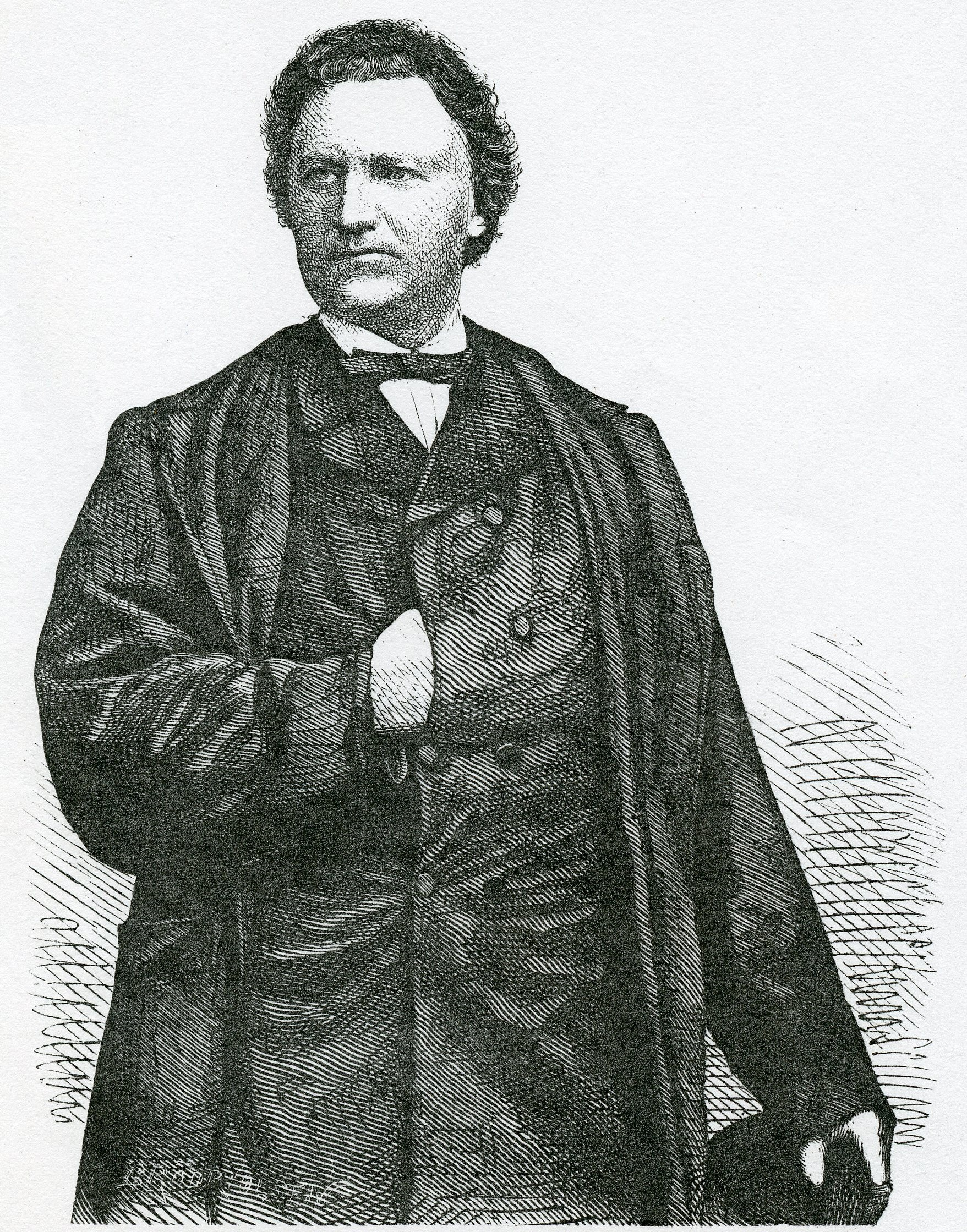 Norwegian actor